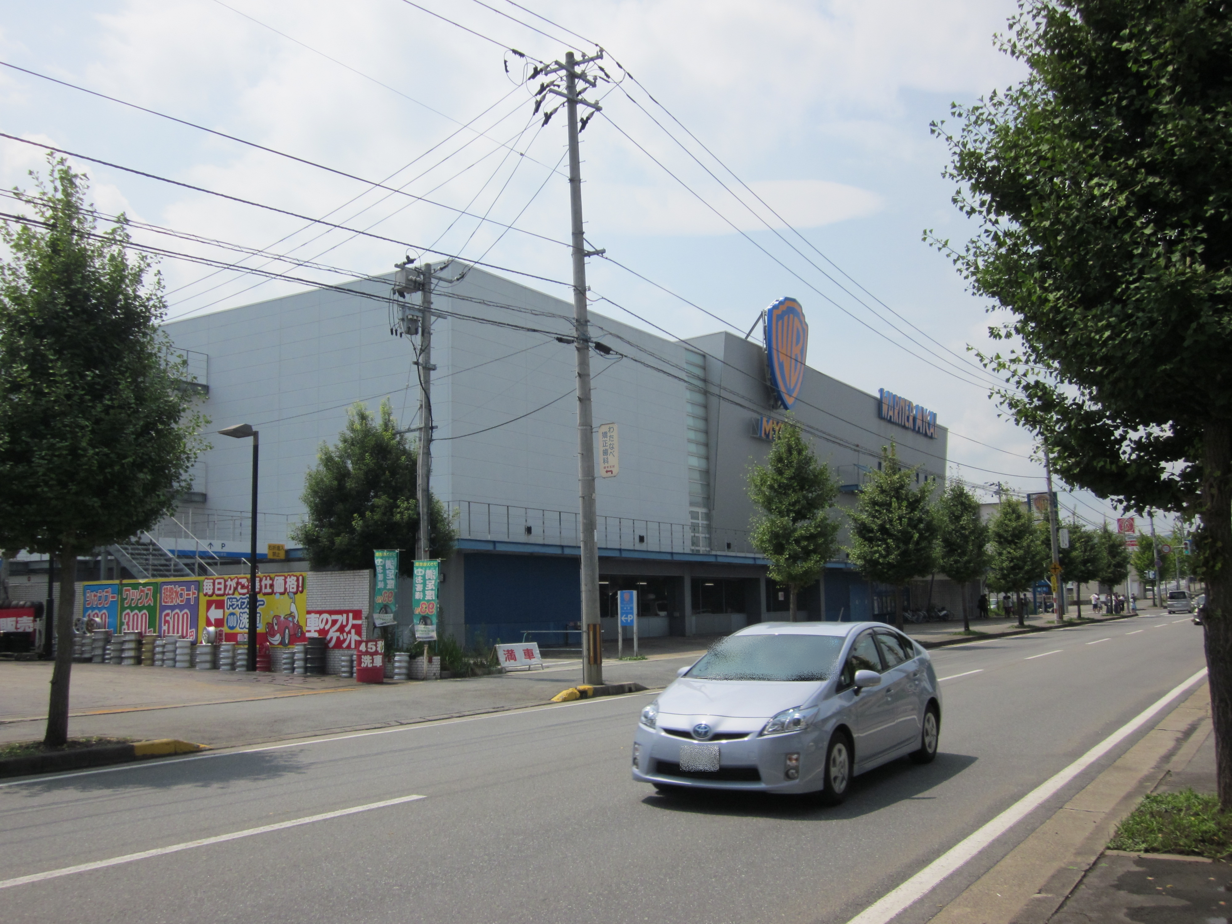 Warner Mycal Cinemas Yonezawa(Currently : Aeon Cinema Yonezawa )